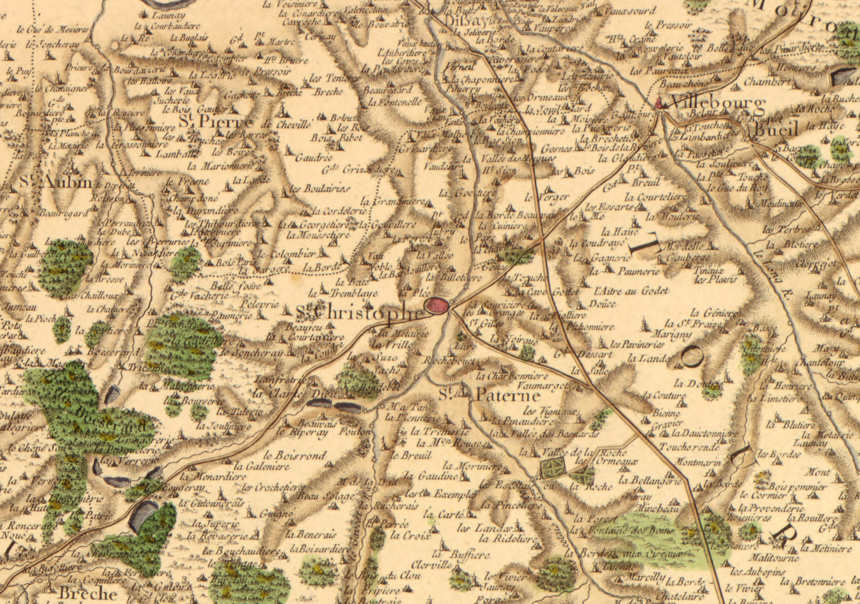 Cassini card of SAINT CHRISTOPHE SUR LE NAIS (Indre-et-Loire, France)